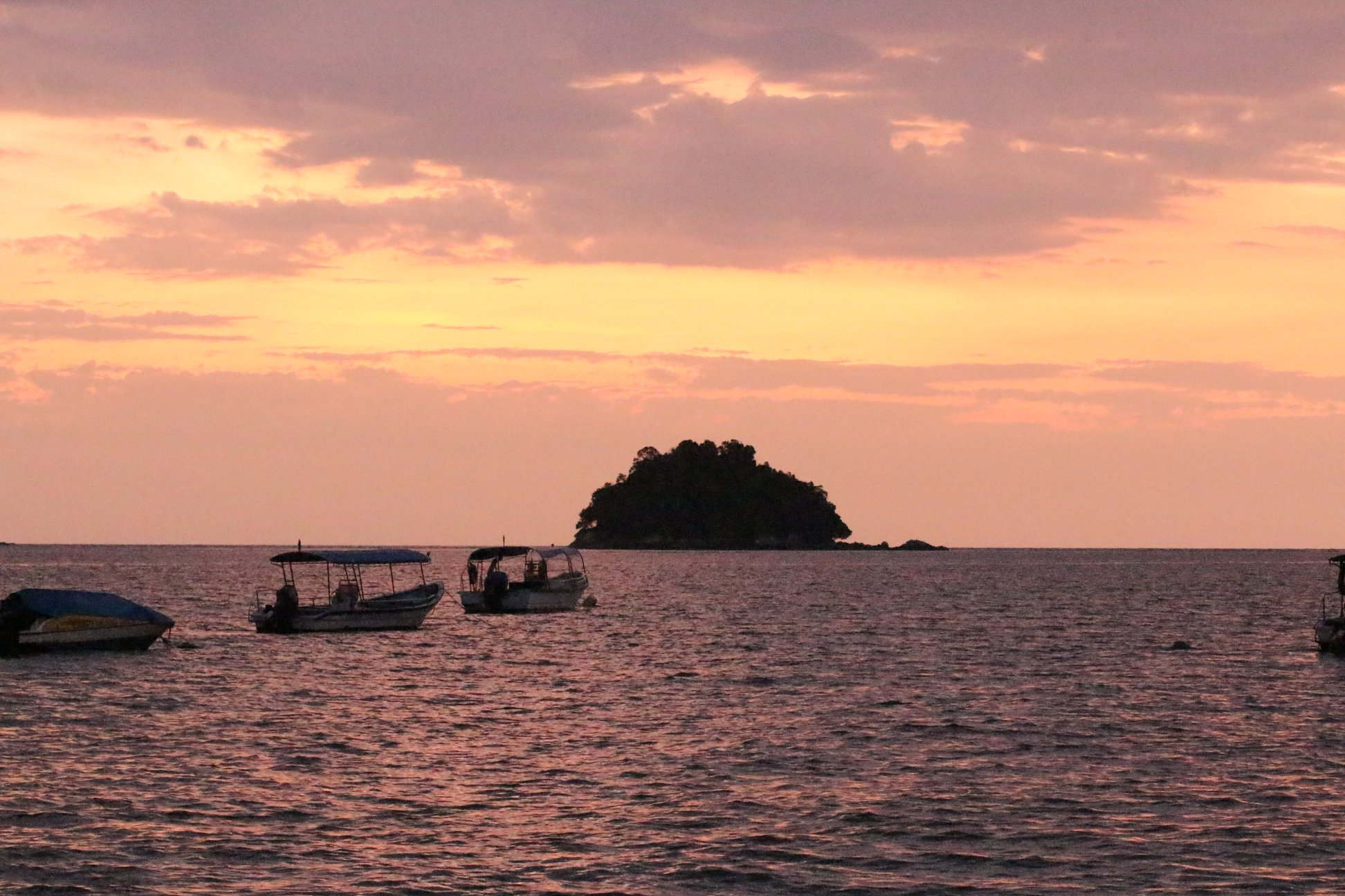 Dawn on the Ocean at Pangkor Island